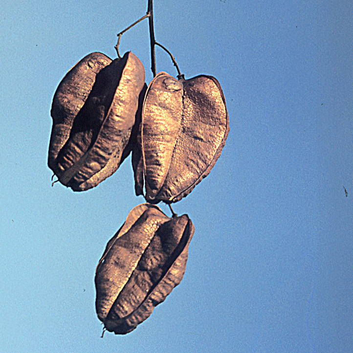 Koelreuteria paniculata capsules